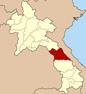 Map of Laos highlighting the province Khammouan.